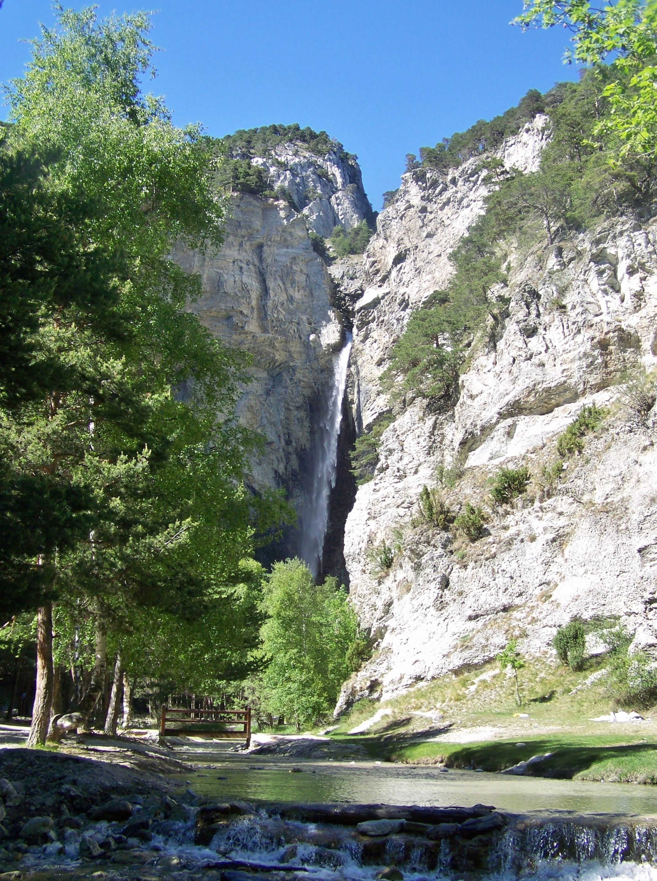 Sight of cascade du Saint-Benoît cascade, commune of Avrieux in Savoie, France.